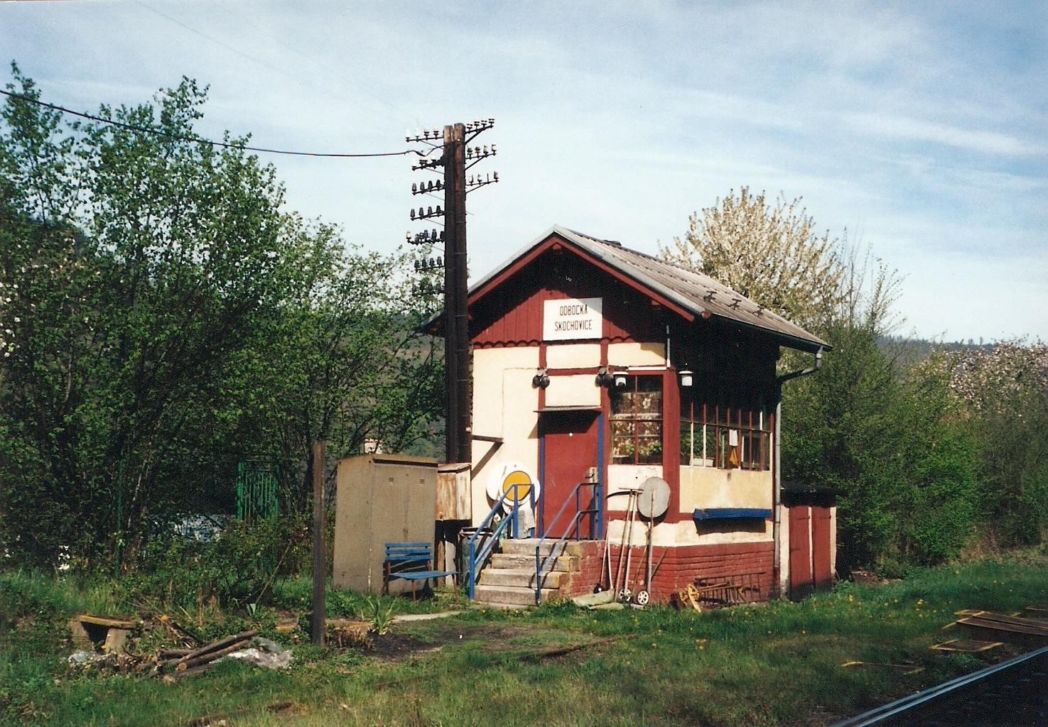 Skochovice junction